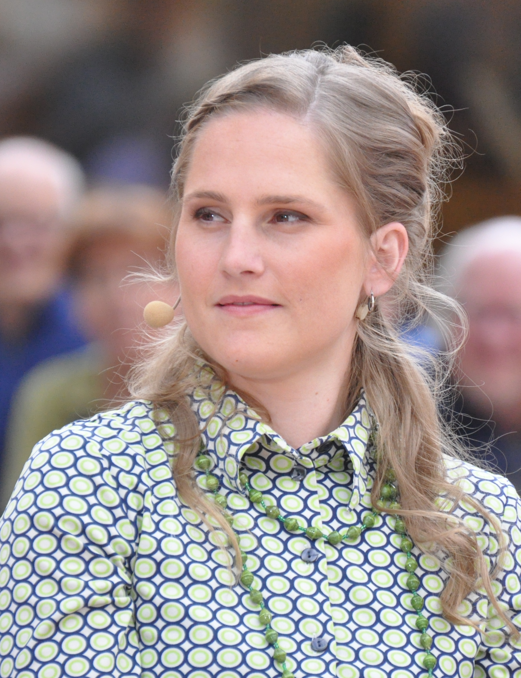 Finnish writer Alexandra Salmela during the taping of Runoraati at the Turku Main Library, 2011.